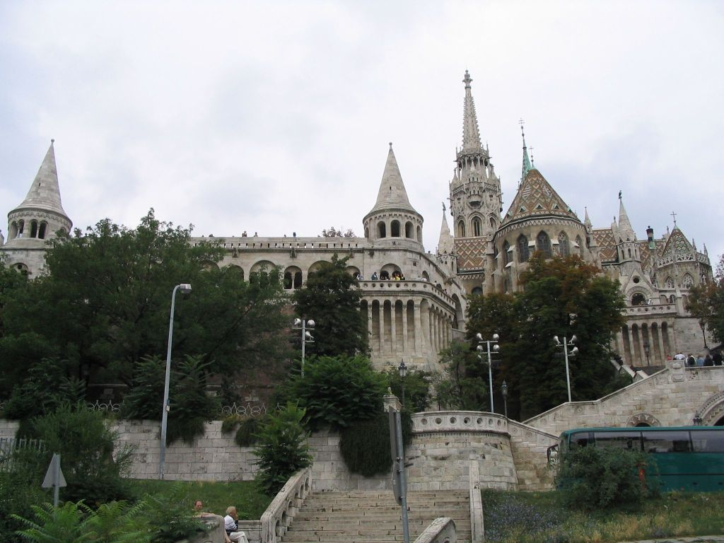 fisher bastion in Budapest